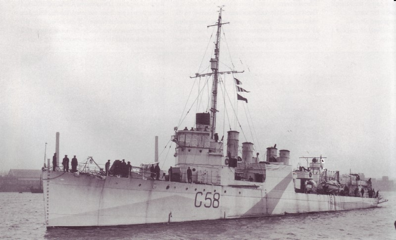 HMS Rockingham (ex-USS Swasey DD-273), undated and location unknown.